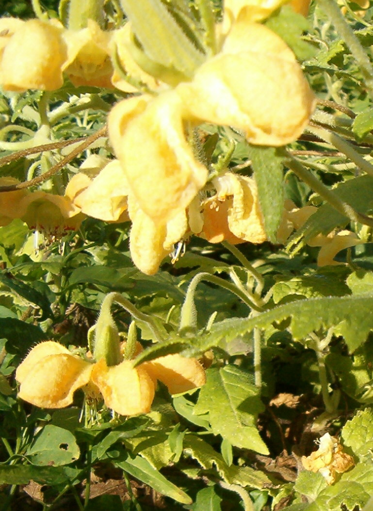 Location: Botanical Gardens Berlin Habitus, Leaves and Flowers